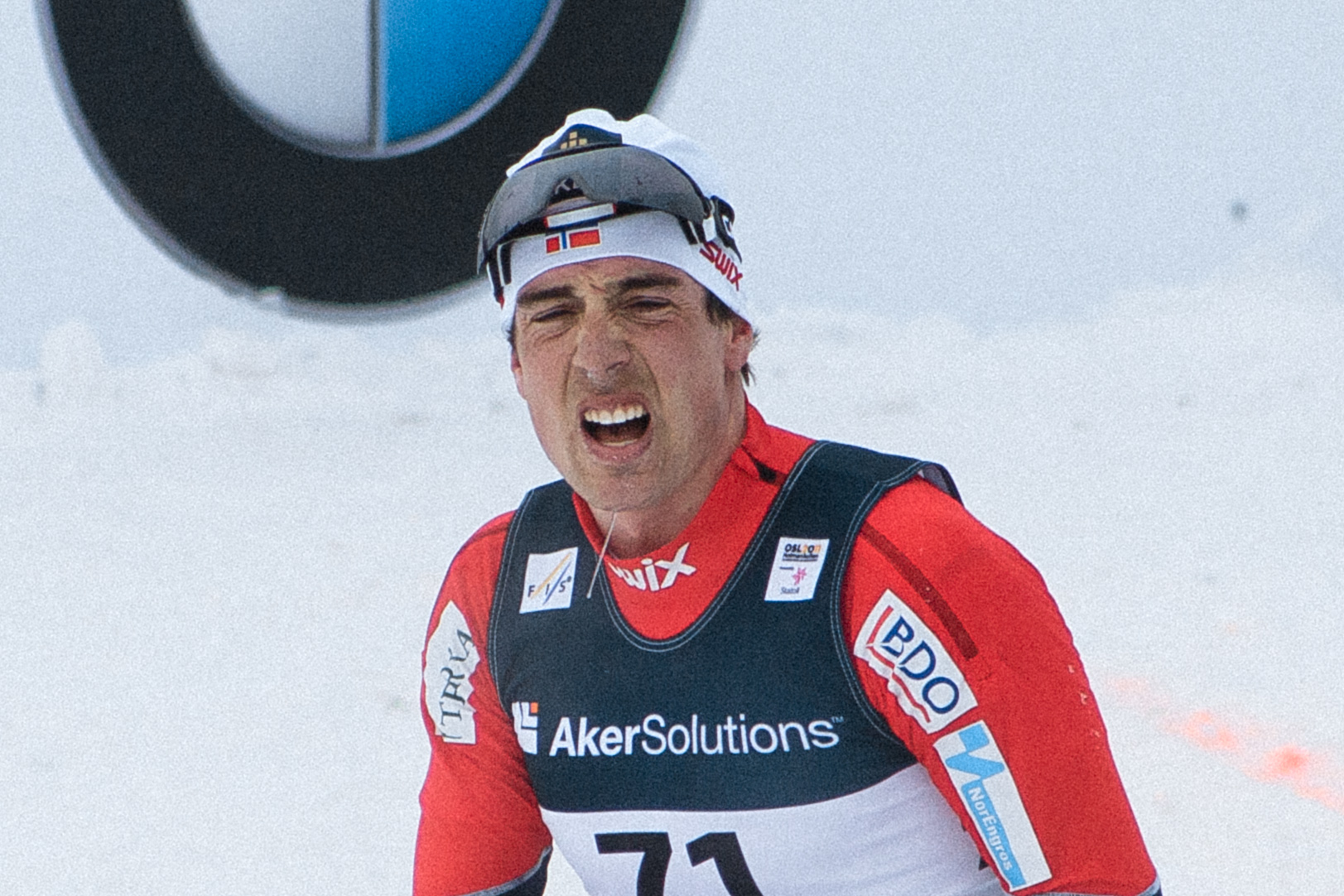 Norwegian cross-country skier Eldar Rønning in the men's 15 km classic race at the 2011 FIS Nordic World Ski Championships in Oslo, Norway.